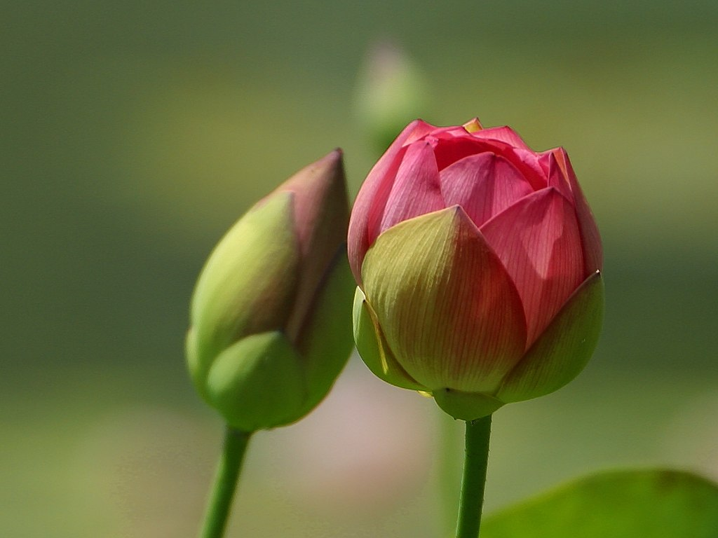 Flower buds have not yet bloomed into a full-size flower.